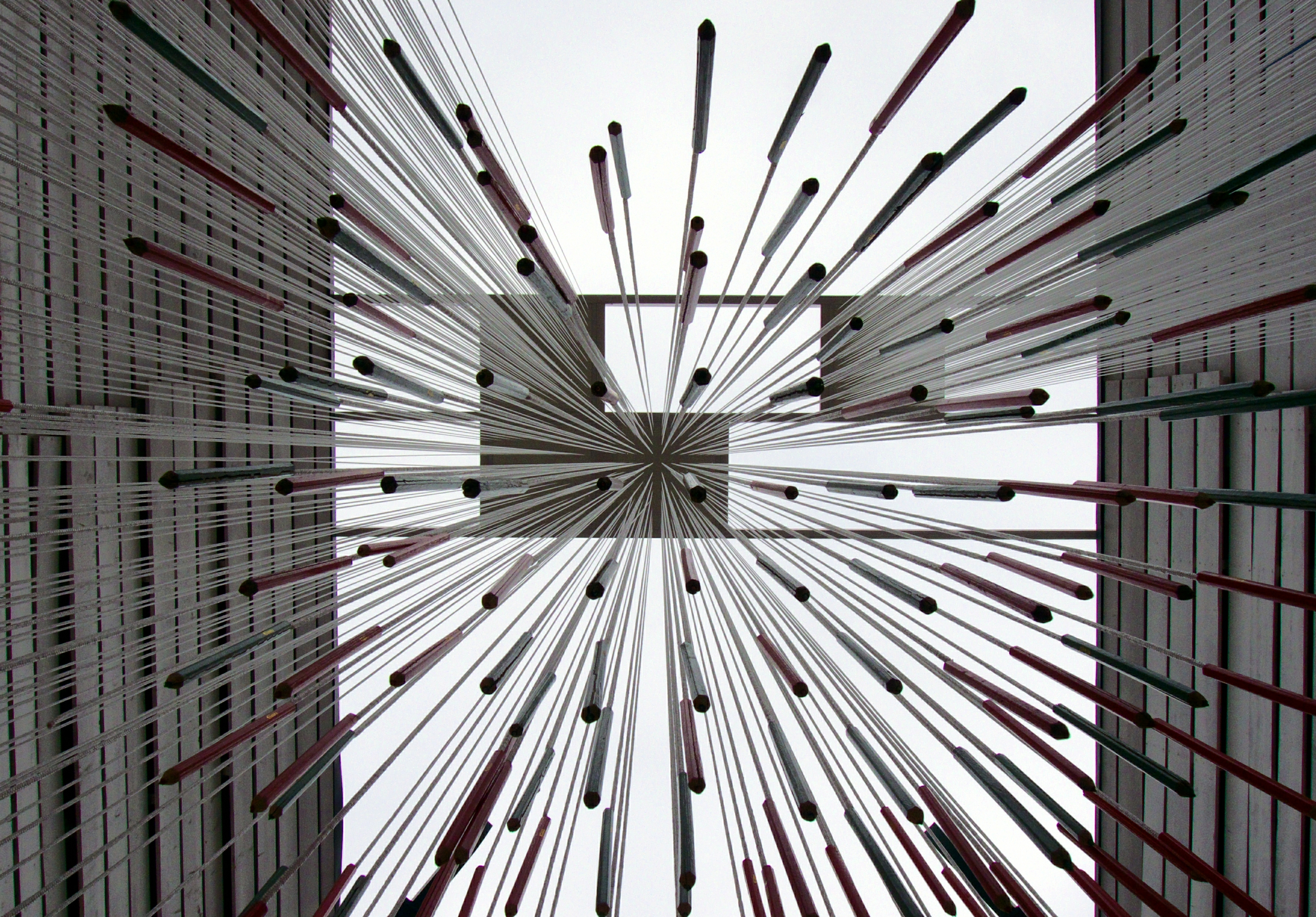 Hungarian Pavilion, Architecture Biennale